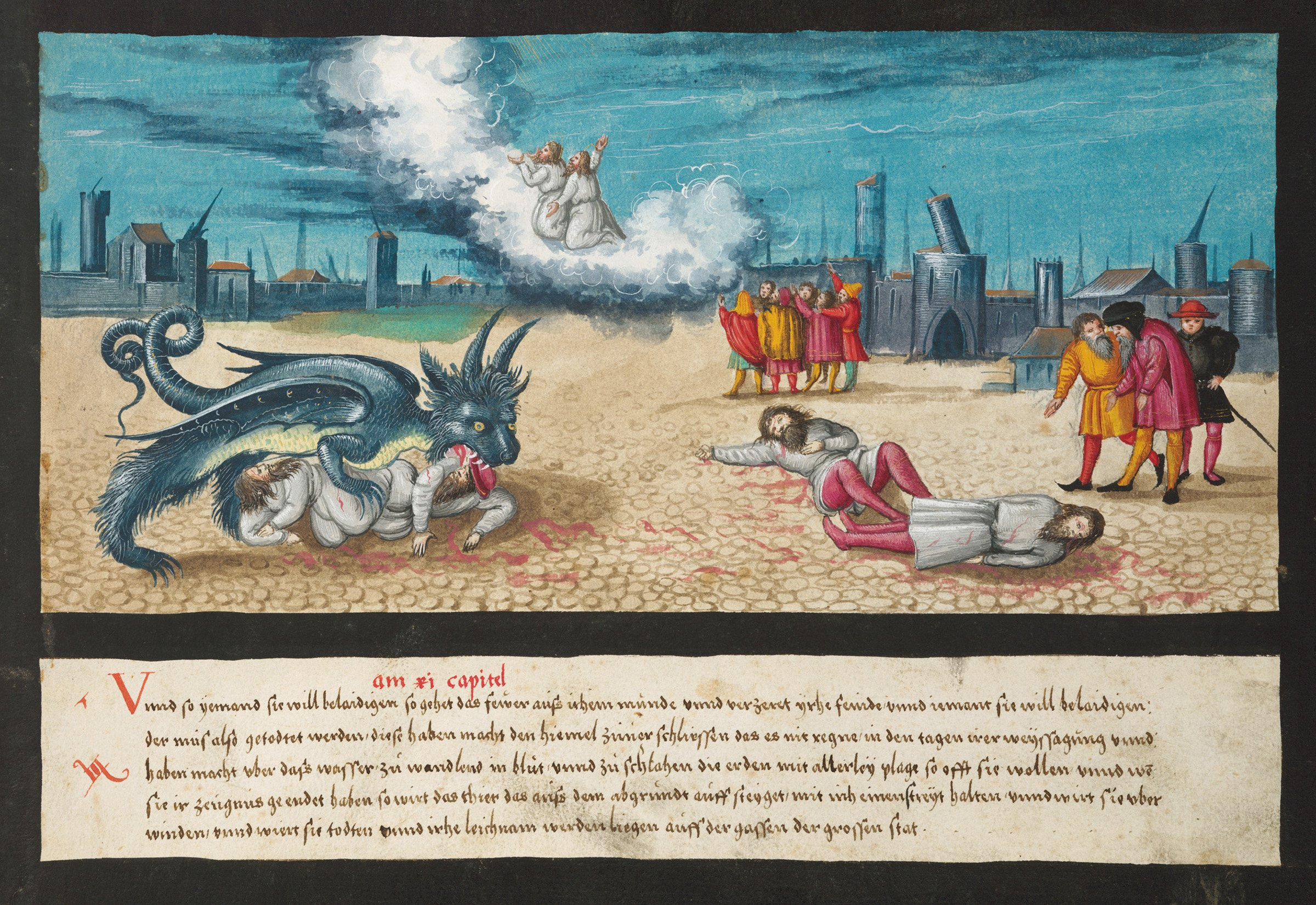 Folio 185, Revelation 11:5-8: "And if anyone would harm them, fire pours from their mouth and consumes their foes. If anyone would harm them, this is how he is doomed to be killed... And when they have finished their testimony, the beast that rises from the bottomless pit will make war on them and conquer them and kill them, and their dead bodies will lie in the street of the great city." Augsburger Wunderzeichenbuch, c. 1550